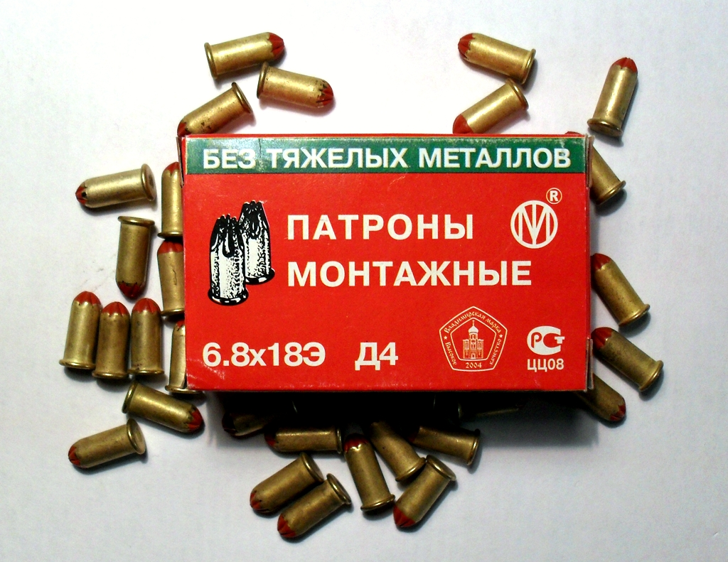 D4 blank (industrial) cartridges for direct fastening.